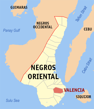 Map of Negros Oriental showing the location of Valencia